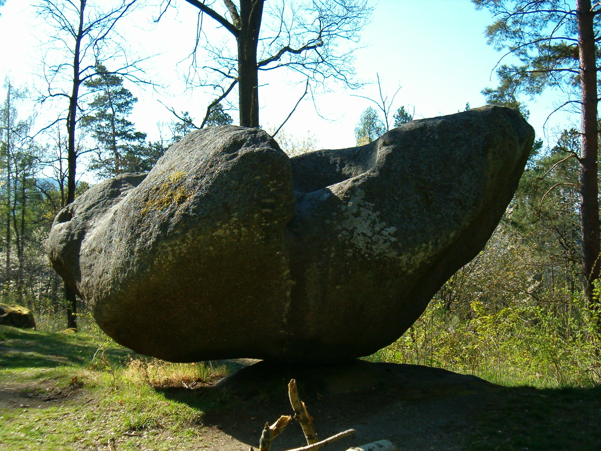 Husova kazatelna near Petrovice Příbram district, Czech Republic.